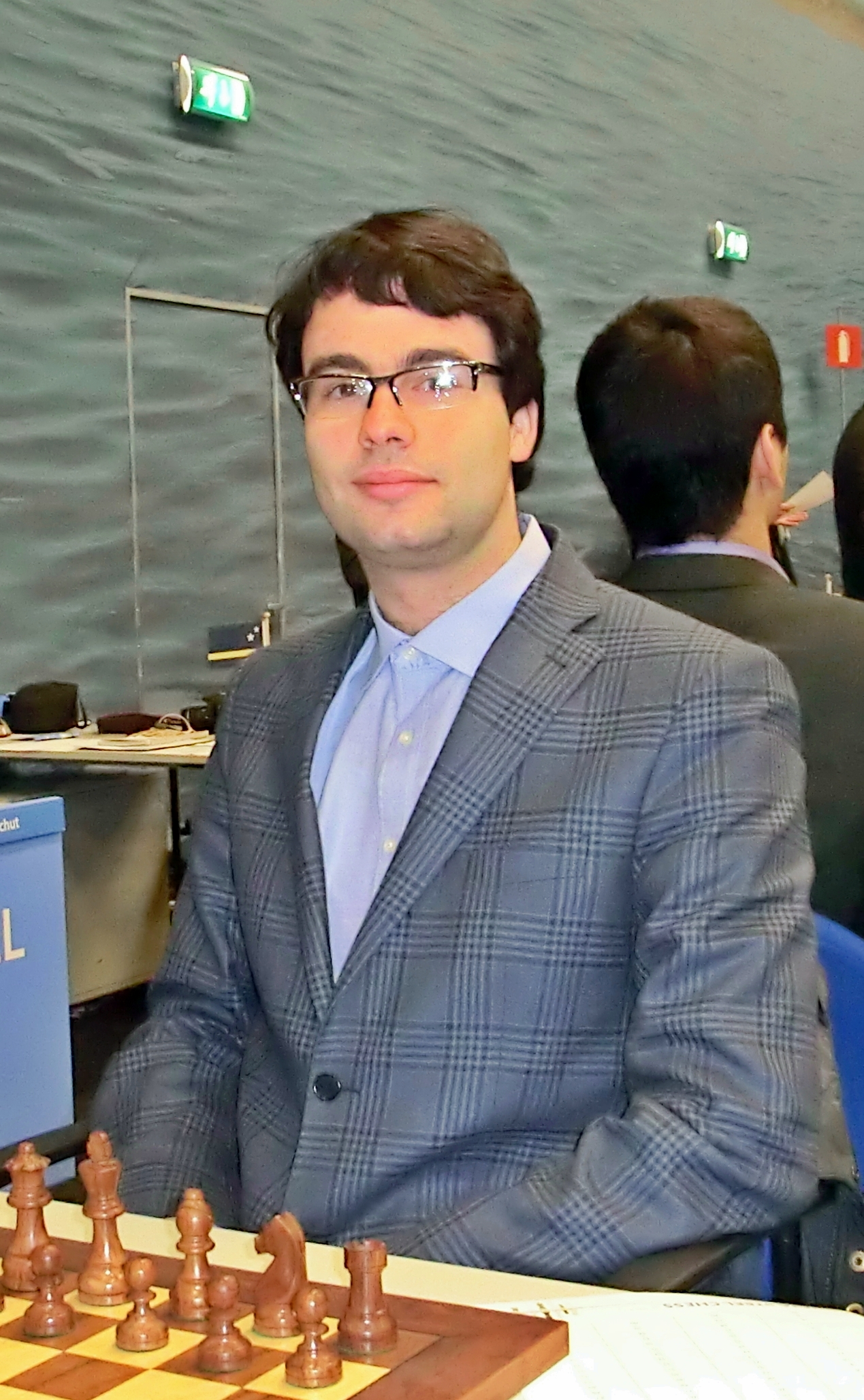 Sabino Brunello, chess grandmaster from Italy